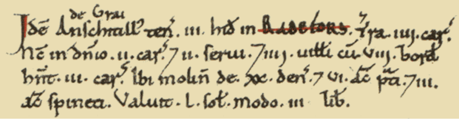 Domesday Book entry for manor of Radford in the hundred of Shipton, Oxfordshire, one of six manors held by Anchetil de Greye (c.1052 - post-1086) from William FitzOsbern, 1st Earl of Hereford.